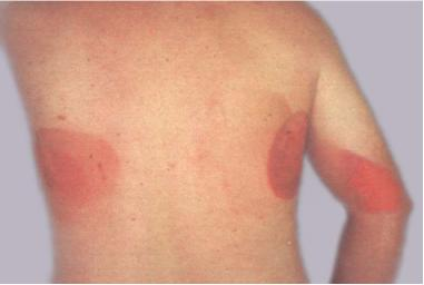 Injuries to back and arm from multiple prolonged electrophysiological and ablation procedures with bi-plane fluoroscopy. Wounds on back healed into scarred areas while injury on arm required grafting.